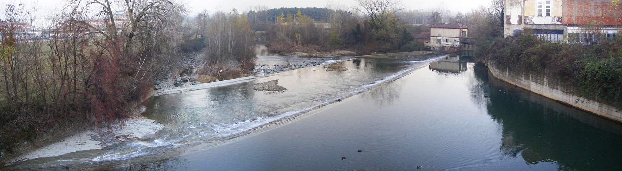 Ceronda creek in Venaria reale (TO, Italy) Piemontèis: La Srunda a la Venaria